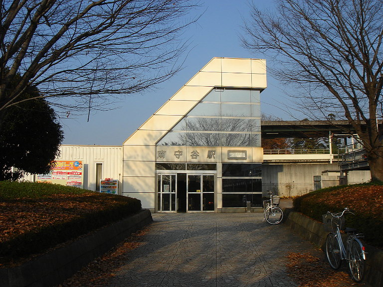 Minami-Moriya Station, Moriya, Ibaraki, Japan